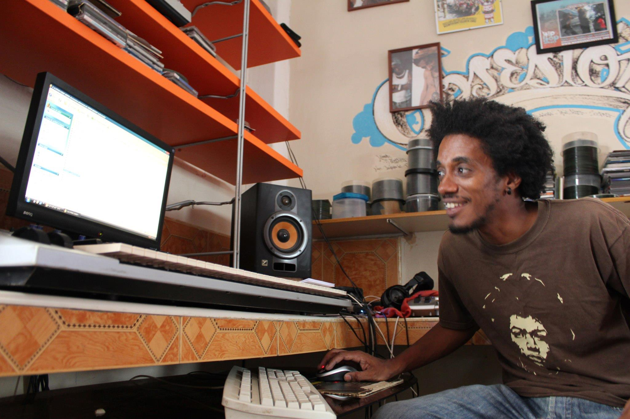 Alexey Rodriguez, of Obsesión, in his home studio in Regla, Cuba.